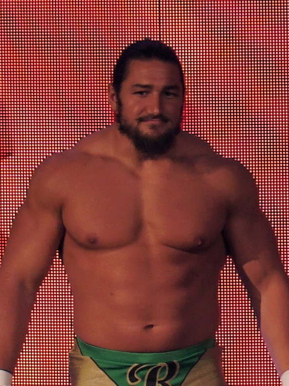 Riddick Moss entering the arena at Axxess 2018.